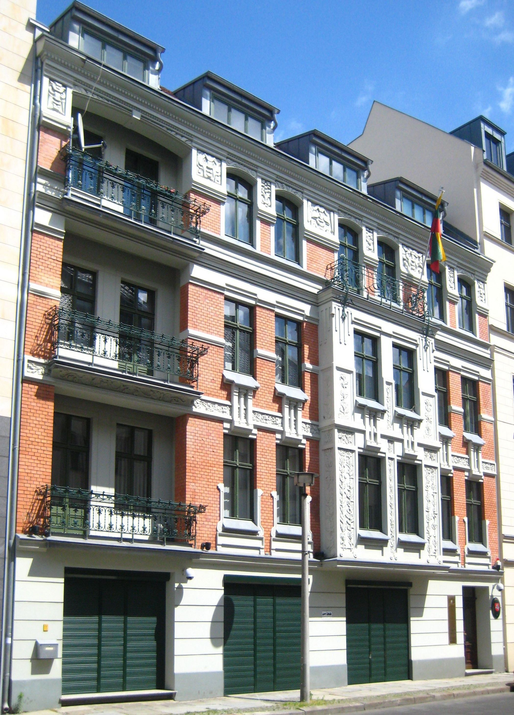 Embassy of Lithuania at Charitéstraße No. 9 in Berlin-Mitte. It was constructed as residential building around 1900. The building has been designated as a historic landmark.